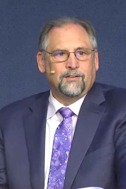 Pastor Mark Biltz, October 2019